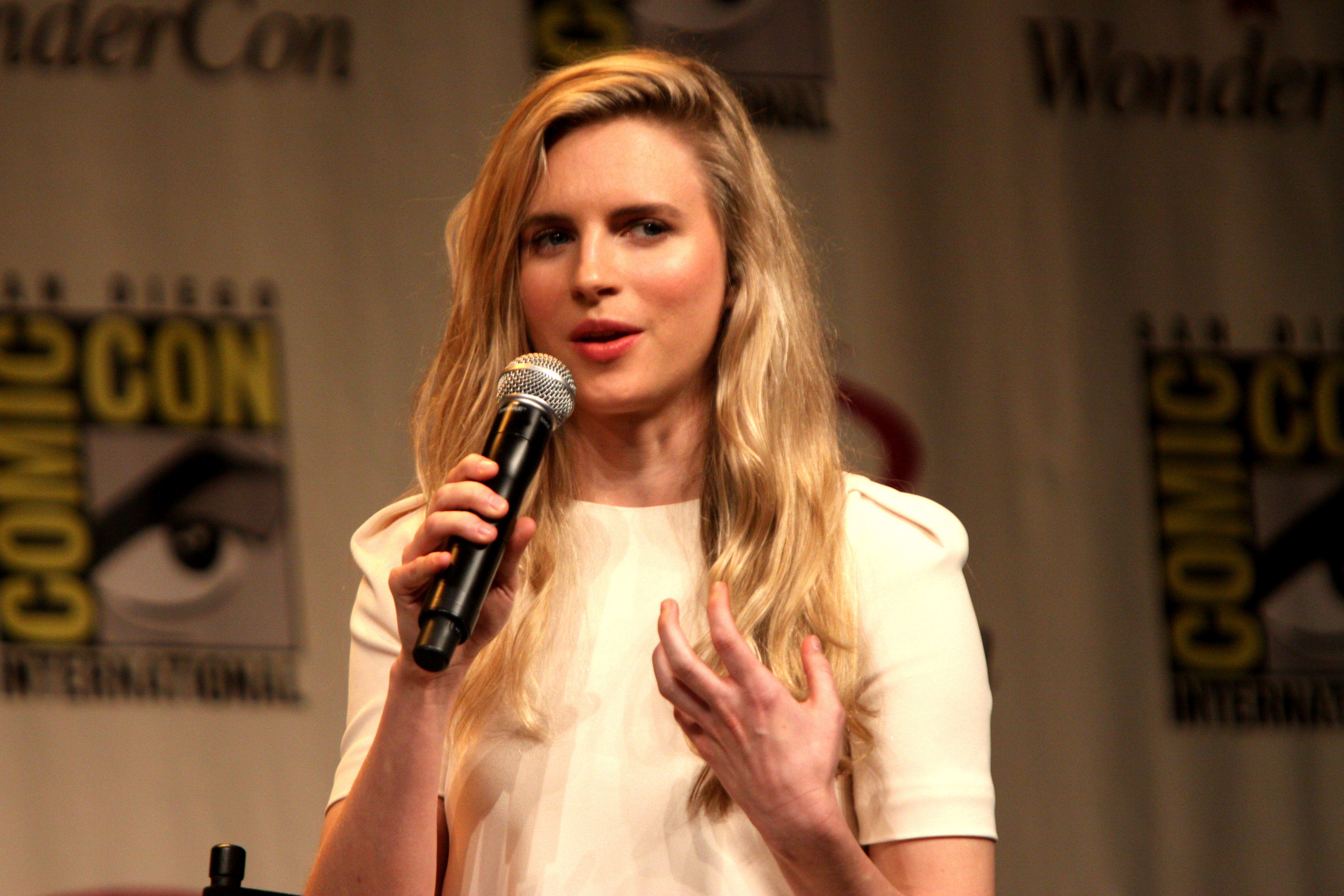 Brit Marling speaking at the 2012 WonderCon in Anaheim, California.